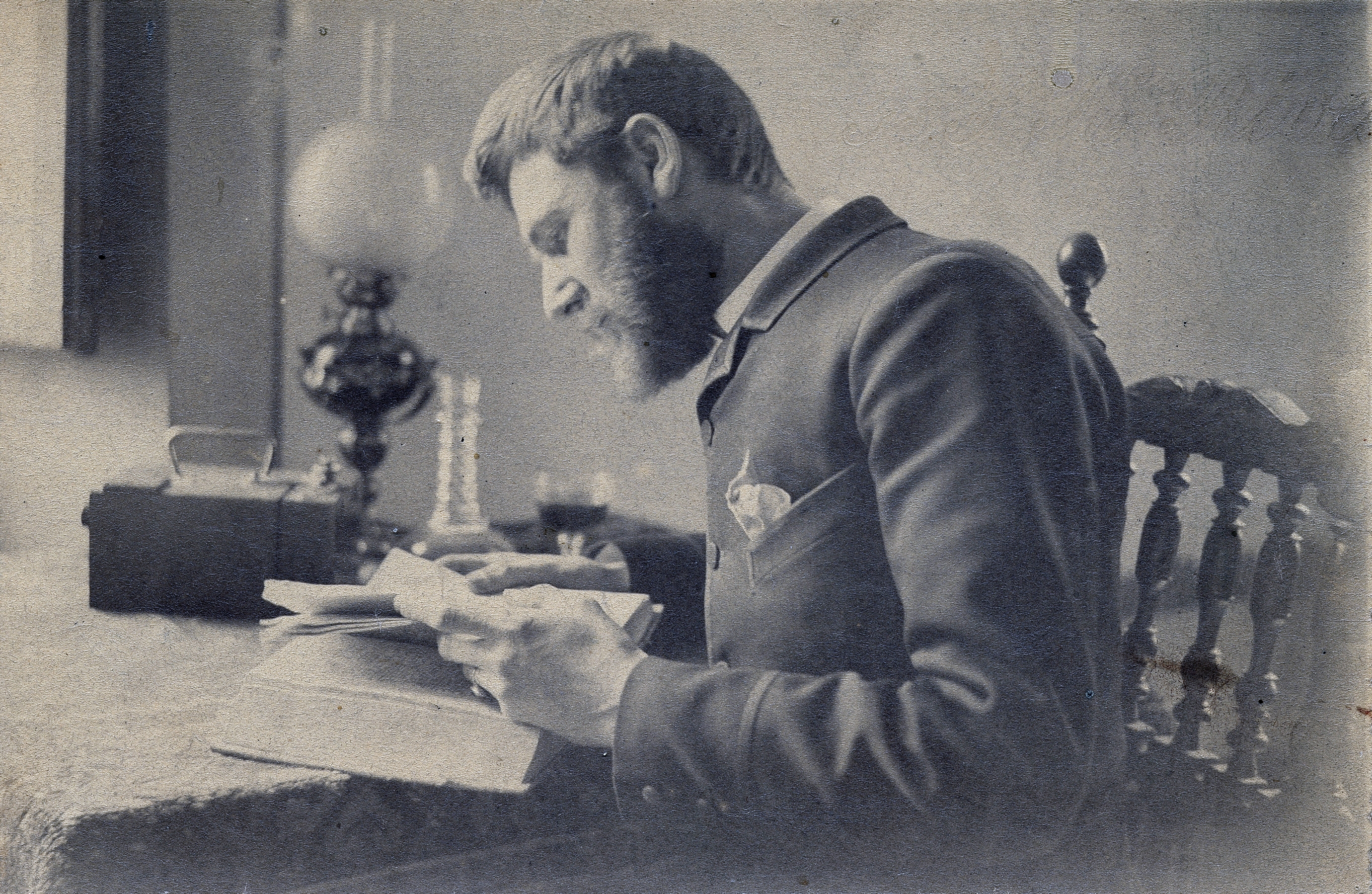 Robert Frederick Blum, American illustrator, draftsman, and etcher